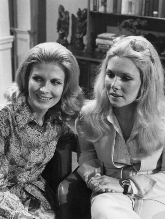 Photo of Beverly Penberthy (Pat Randolph) and Jacquie Courtney (Alice Matthews) from the daytime drama Another World.